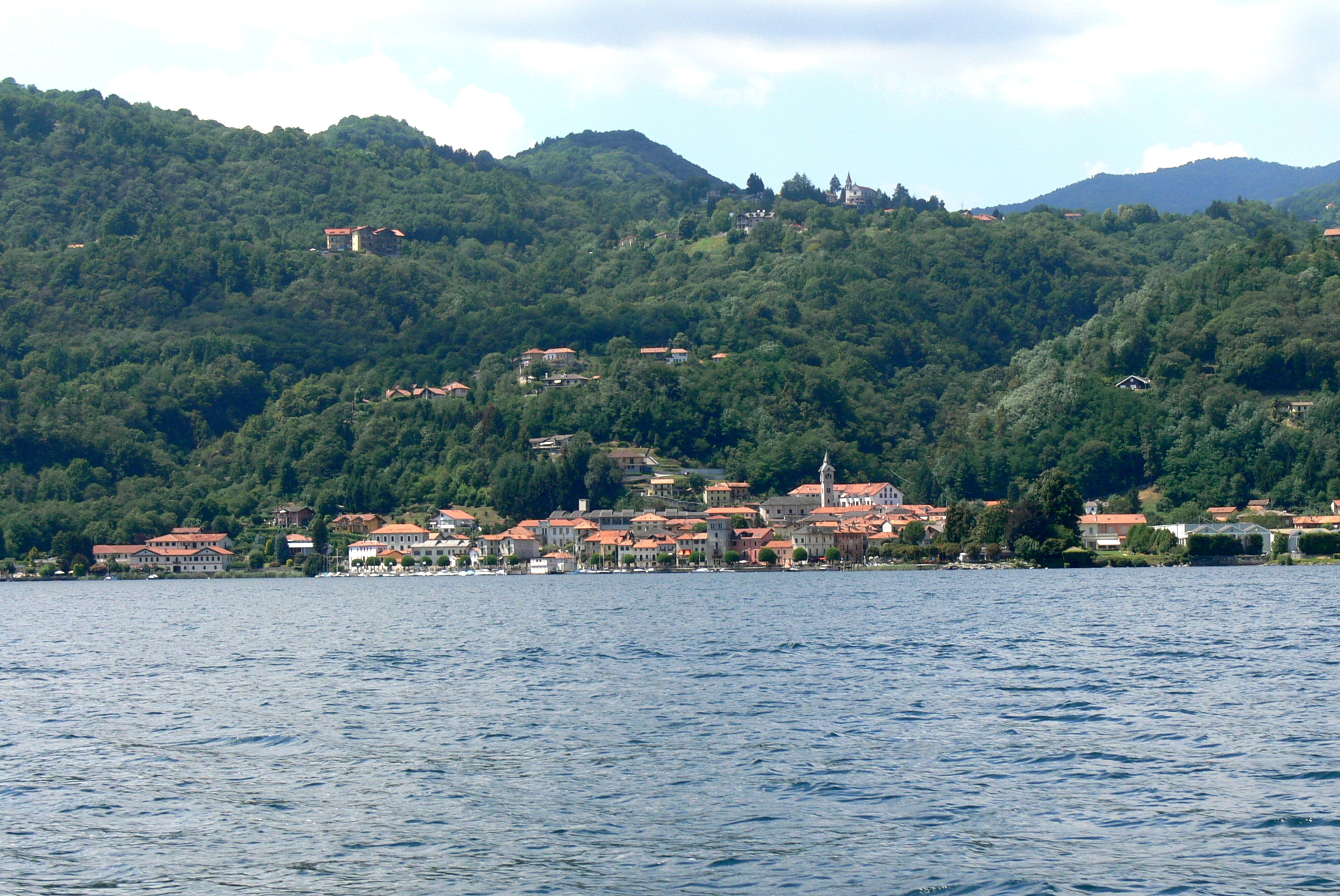 Lago d´Orta ( Piedmont ). View across the lake to Pettenasco.